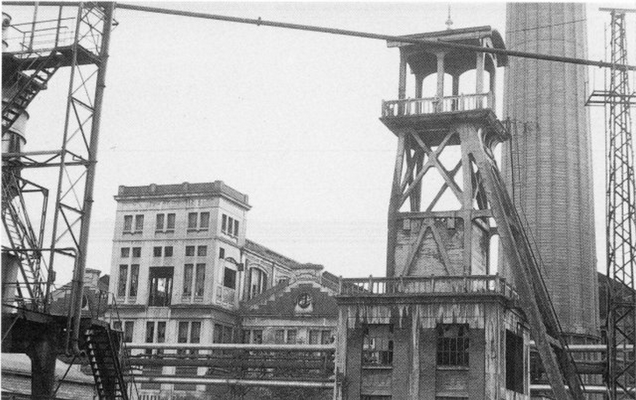 Coalpits n° 10 - 10 bis, Compagnie des mines de Lens, Vendin-le-Vieil, Pas-de-Calais, France.